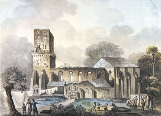 Nikolaj Kirke after the Fire of 1795 in Copenhagen, Denmark